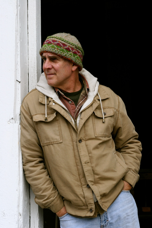 Author Richard Adams Carey in Sandwich, NH, 2011.